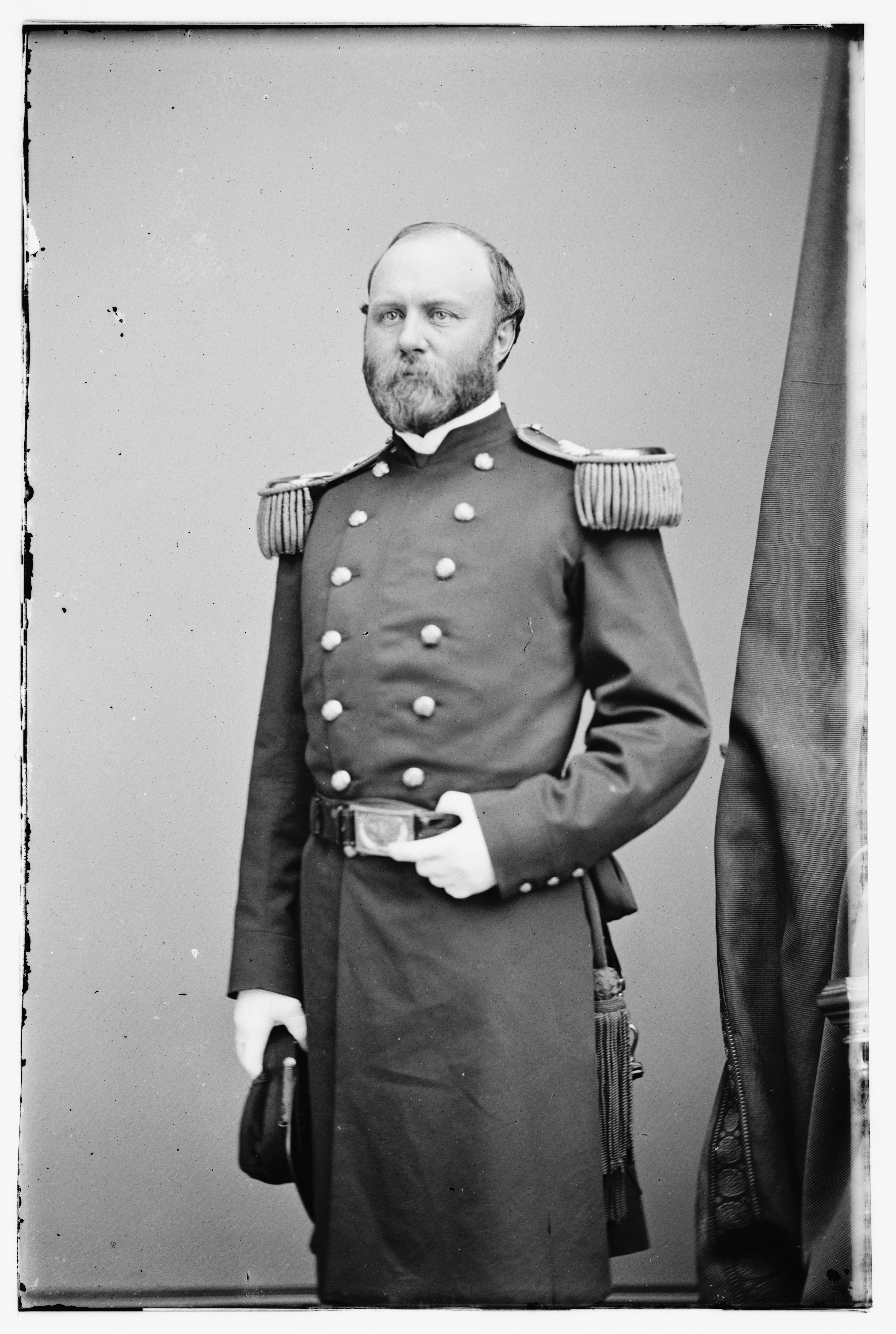 Title: Gen. Henry B. Clitz, Col. 10th US Inf Physical description: 1 negative